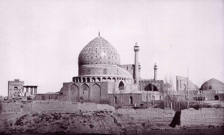 Masjed-e Shah a.k.a Masjed-e Imam, Isfahan, Iran